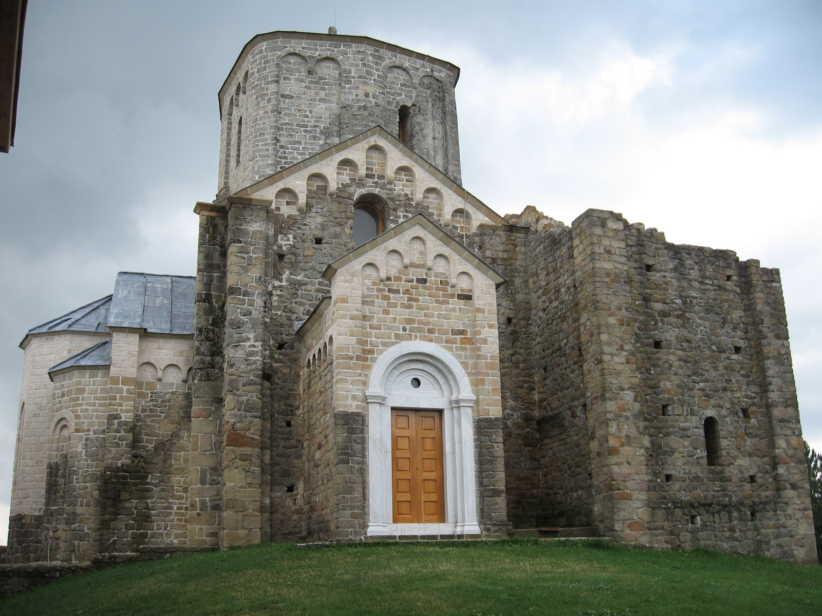 Djurdjevi Stupovi